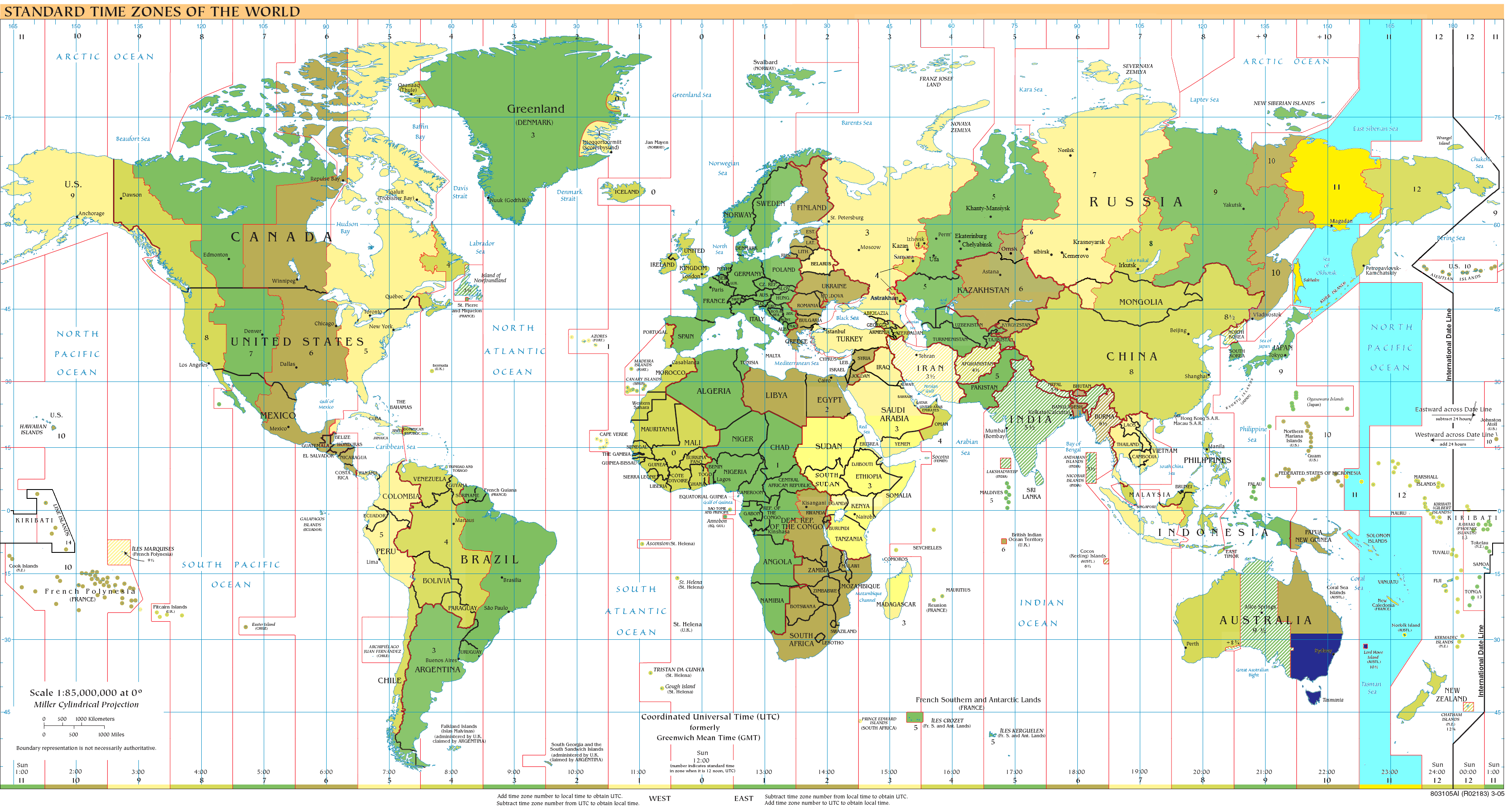 UTC+11